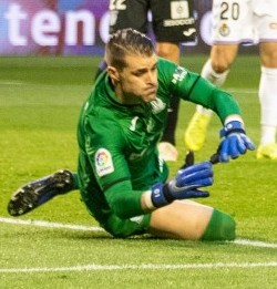 Real Valladolid - C. D. Leganés, 14th fixture of the 2018-19 La Liga, December 1, 2018.